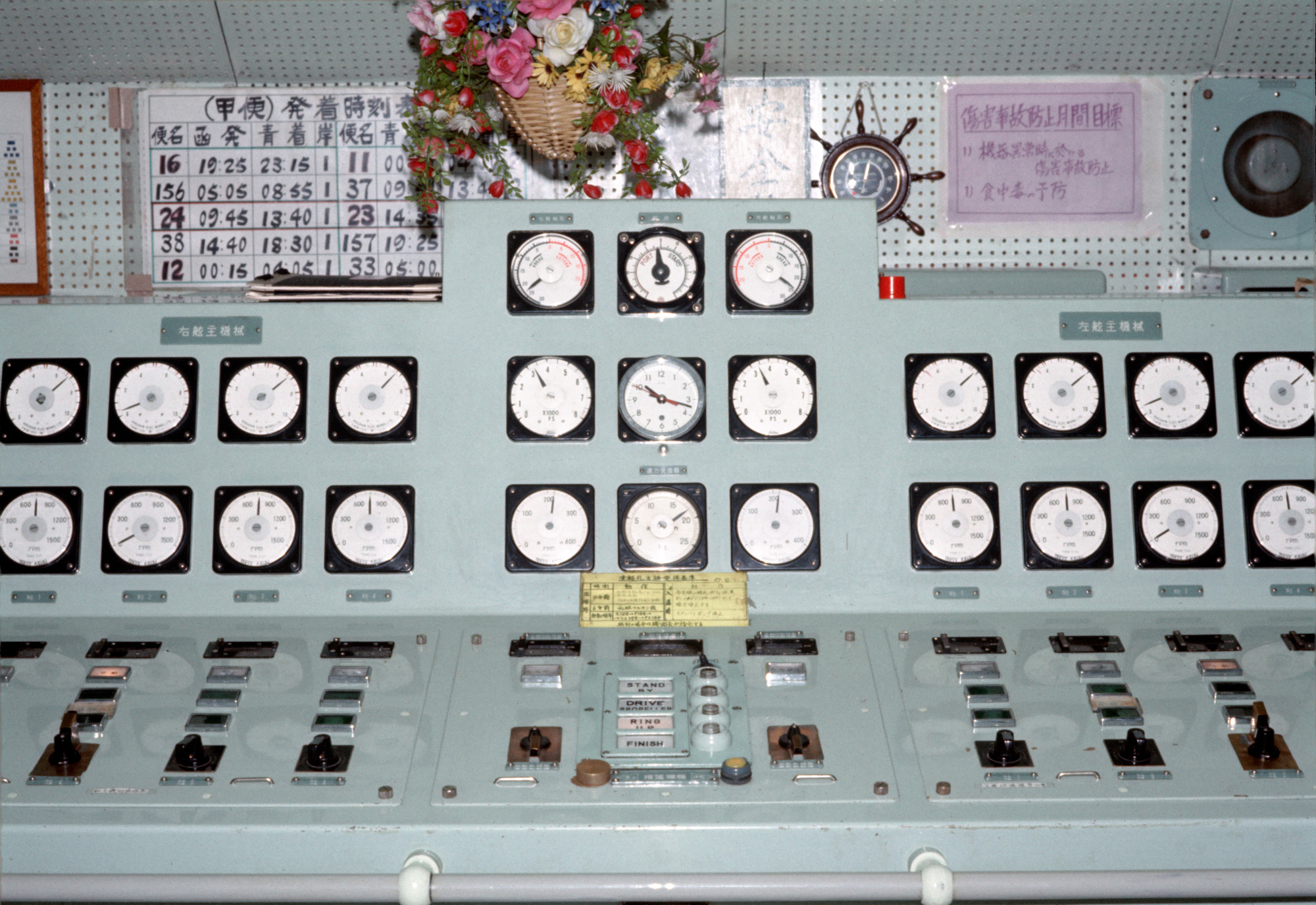 Main engines instrument board and console in Tsugaru Maru2 engine control room